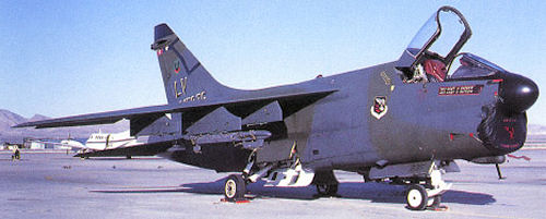 4451st Tactical Squadron A-7D Corsair II 69-6225 1969: Aircraft delivered to 4525th Fighter Weapons Wing, Nellis AFB, NV (c/n D-0055) :Re-designated 57th Fighter Weapons Wing/66th FWS, 1969 Transferred to 354th Tactical Fighter Wing, Myrtle Beach AFB, SC, 1972 Transferred to 124th Tactical Fighter Squadron, IA Air National Guard, 1977 Transferred to 4450th Tactical Group/4451st TS, Nellis AFB, NV, 1983 Transferred to 152d Tactical Fighter Training Squadron, AZ Air National Guard, 1989 Transferred to AMARC as AE0089 Nov 27, 1991 Disposition:04-APR-97 / To National, Kolb Rd, Tucson, AZ, Scrapped